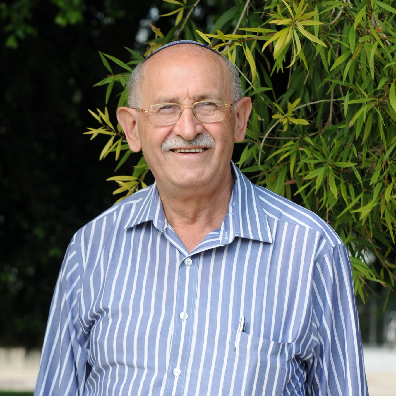 Meir Wilchek (Hebrew: מאיר אשר וילצ'ק, born in 1935) is an Israeli biochemist. He is a professor at the Weizmann Institute of Science.